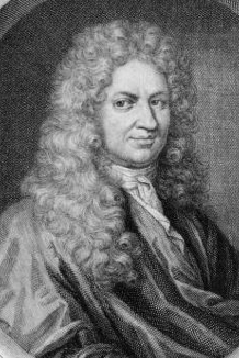 Portrait of Barthélemy d'Herbelot (1625-1695), cropped